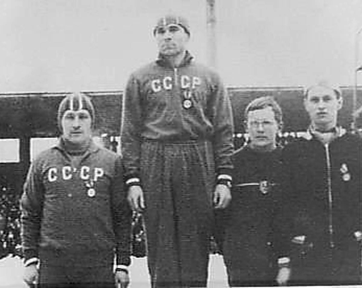 European skating championship, Oslo 1962. Medal ceremony for 500m. From left to right: Boris Stenin (USSR, silver), Evgeni Grishin (USSR, gold), André Kouprianoff (France, bronze) en Henk van der Grift (bronze).